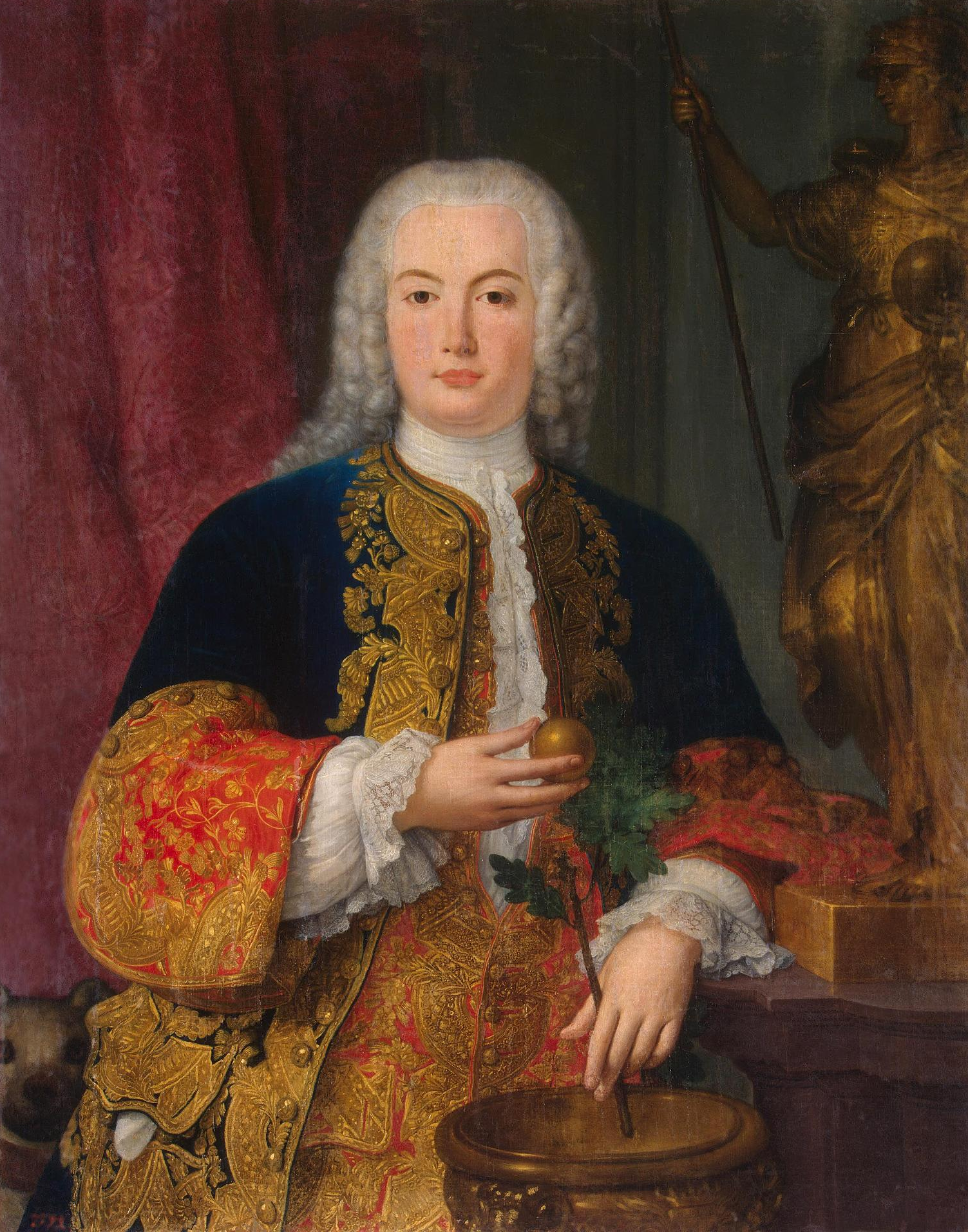 Infante Pedro of Portugal (later King Consort Peter III of Portugal), in 1745 (age 28).